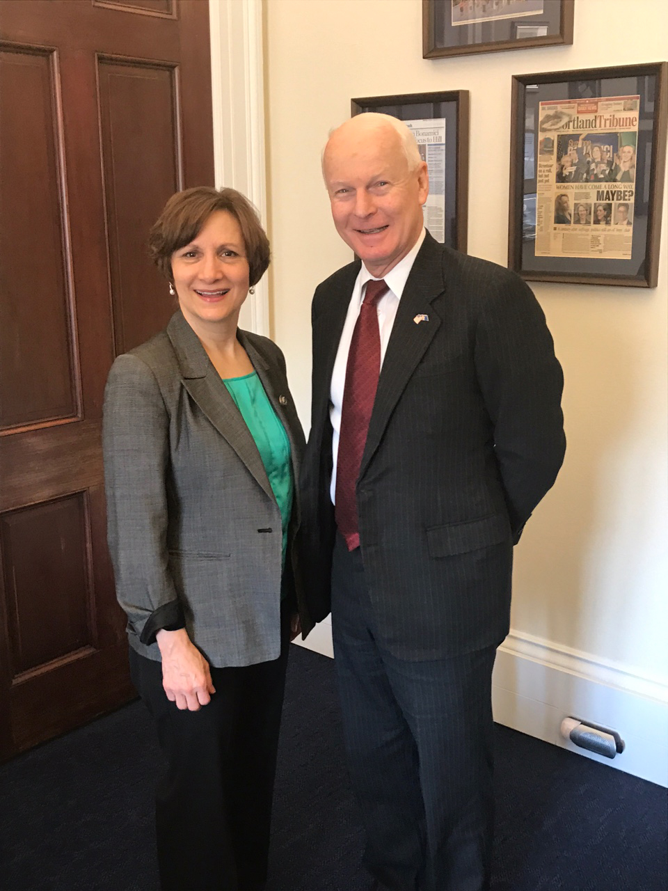 Congresswoman Suzanne Bonamici and Secretary of State Dennis Richardson